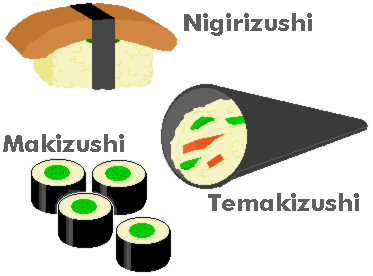 Description: Sushi Source : Rinaldum Statut : GPL ou GFDL